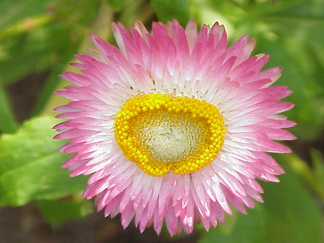 Species: Xerochrysum bracteatum Family: Asteraceae Image No. 4